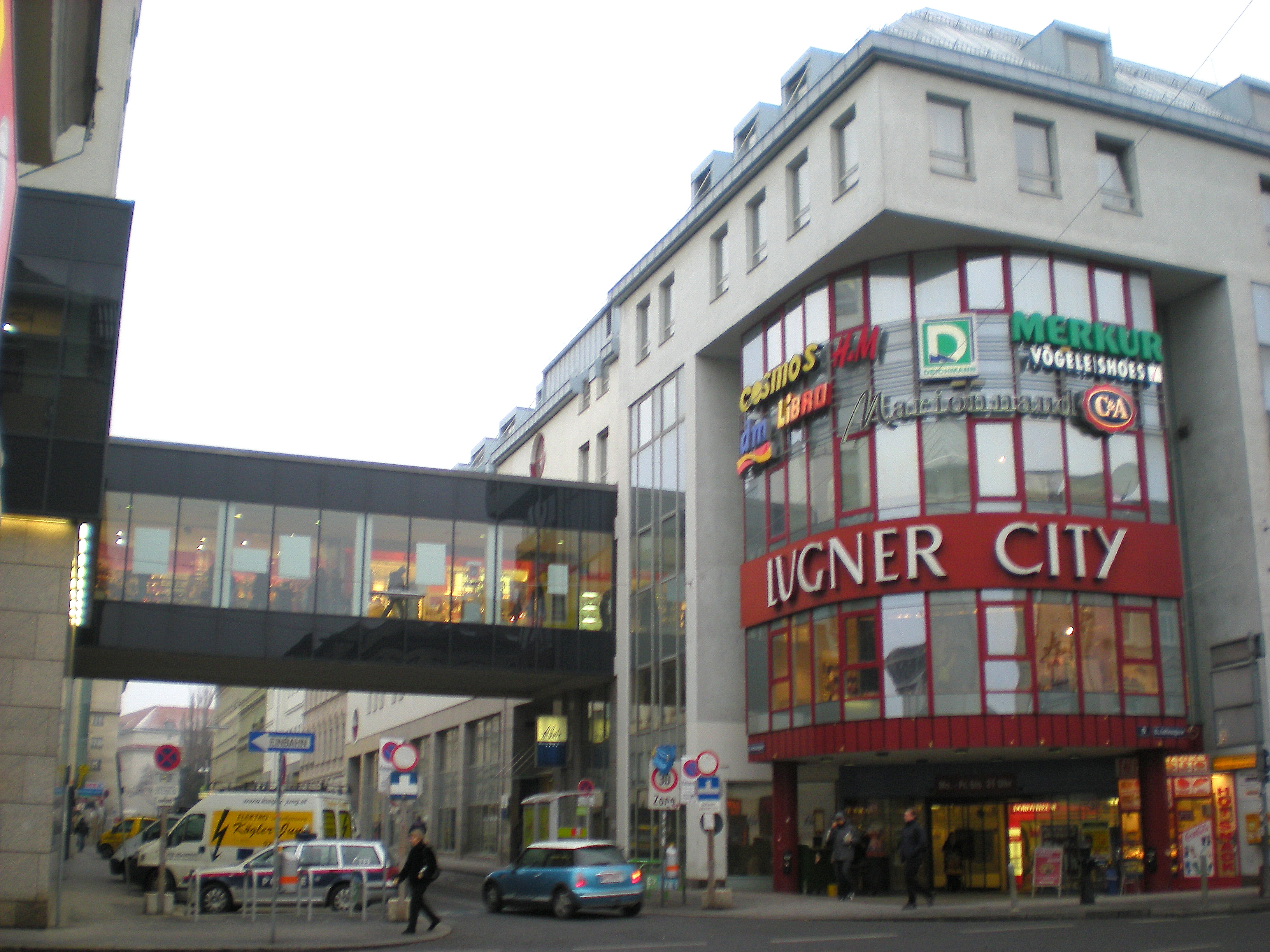 A bridge crossing Wurzbachgasse is connecting the two parts of Vienna's Lugner City shopping mall.